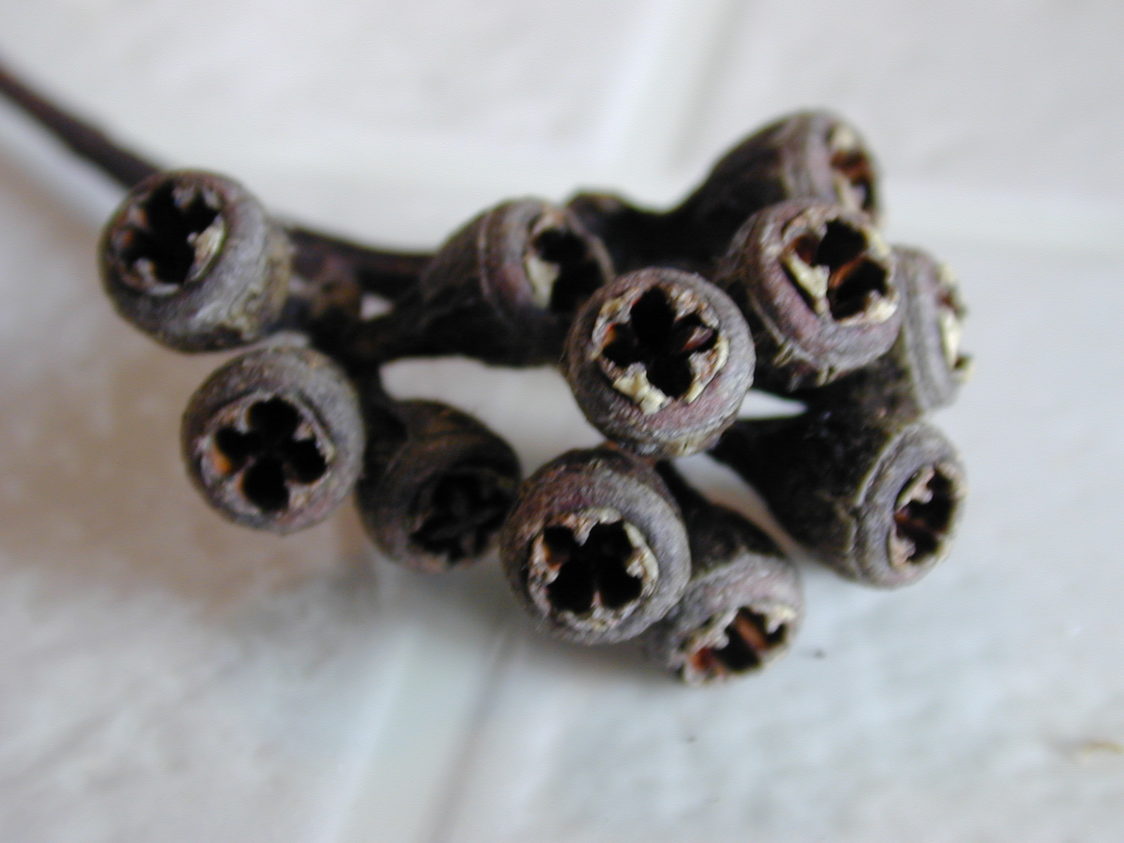 Eucalyptus rudis (operculums Western river red gums). Location: Maui, Hobdy collection